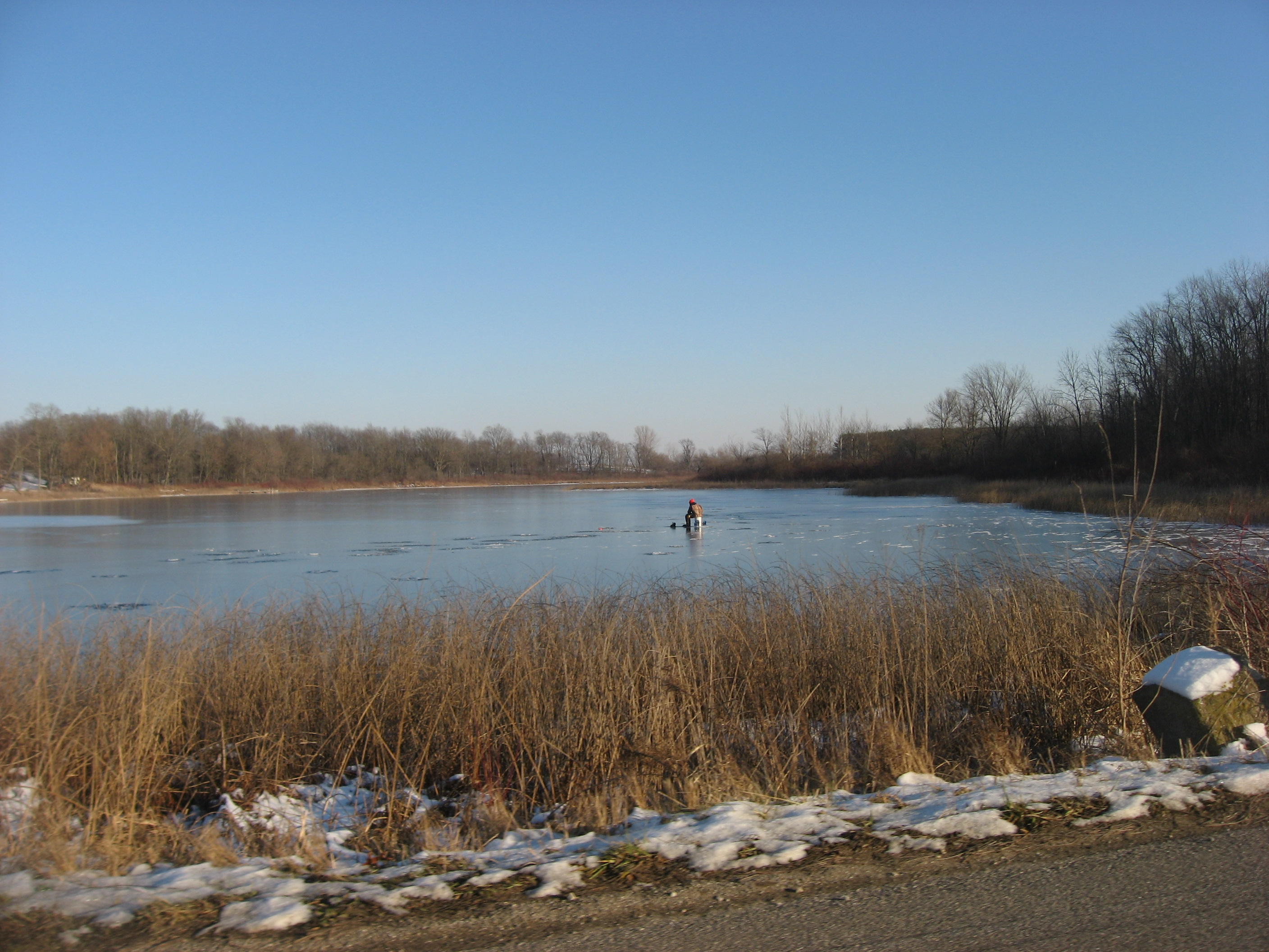 Ice fishing on Gilbert Lake in Washington Township, Noble County, Indiana, United States. Picture looks eastward from N915W south of Gilbert Lake Road.